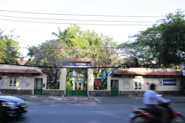 Cổng Lê Quý Đôn